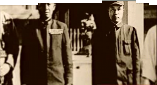 Yoshio Kodama during his military service in China.